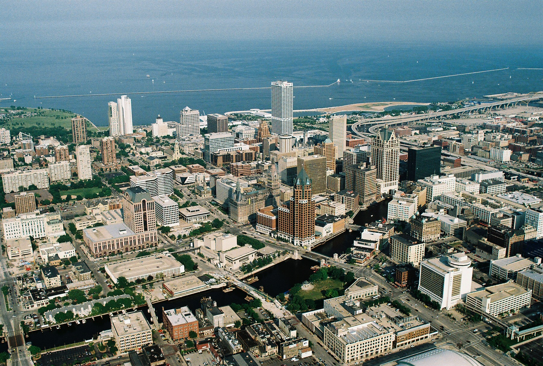 Aerial view of Milwaukee Downtown with Lake Michigan in the background and Milwaukee River in the foreground, Wisconsin, USA.